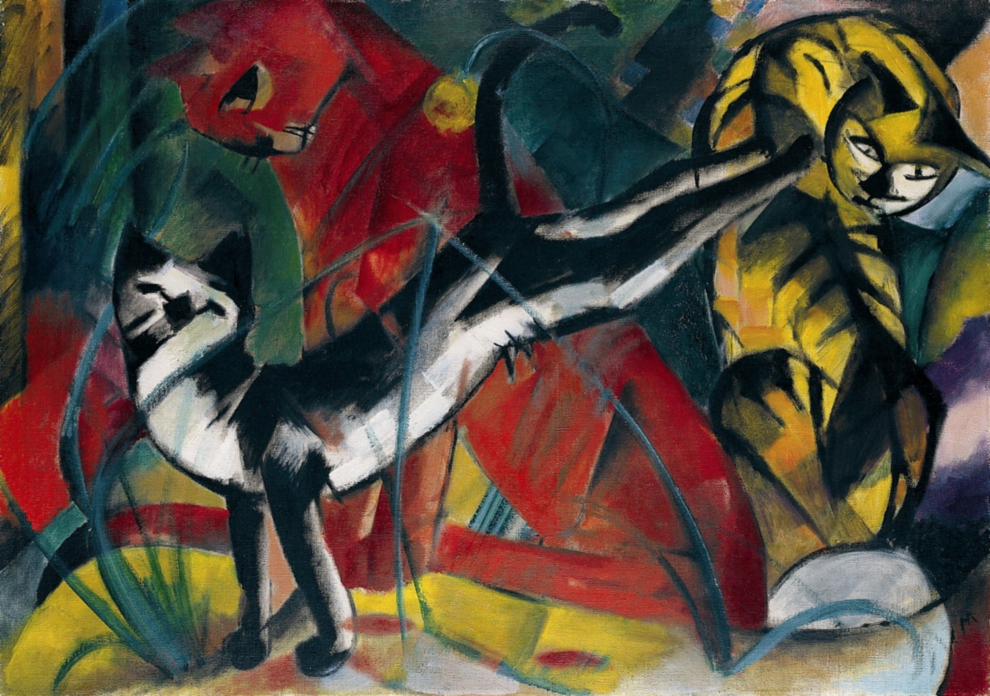 Three cats